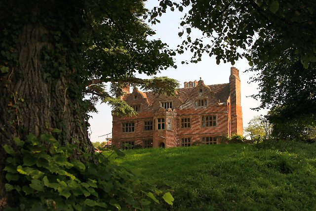 Newe House, Pakenham. Far from 'new', this house is probably the oldest in the village. It is described as 'a picturesque gable mansion of red brick' and was built in 1622 by Robert Bright of Nether Hall, who sold it to Sir William Spring of Pakenham Hall.